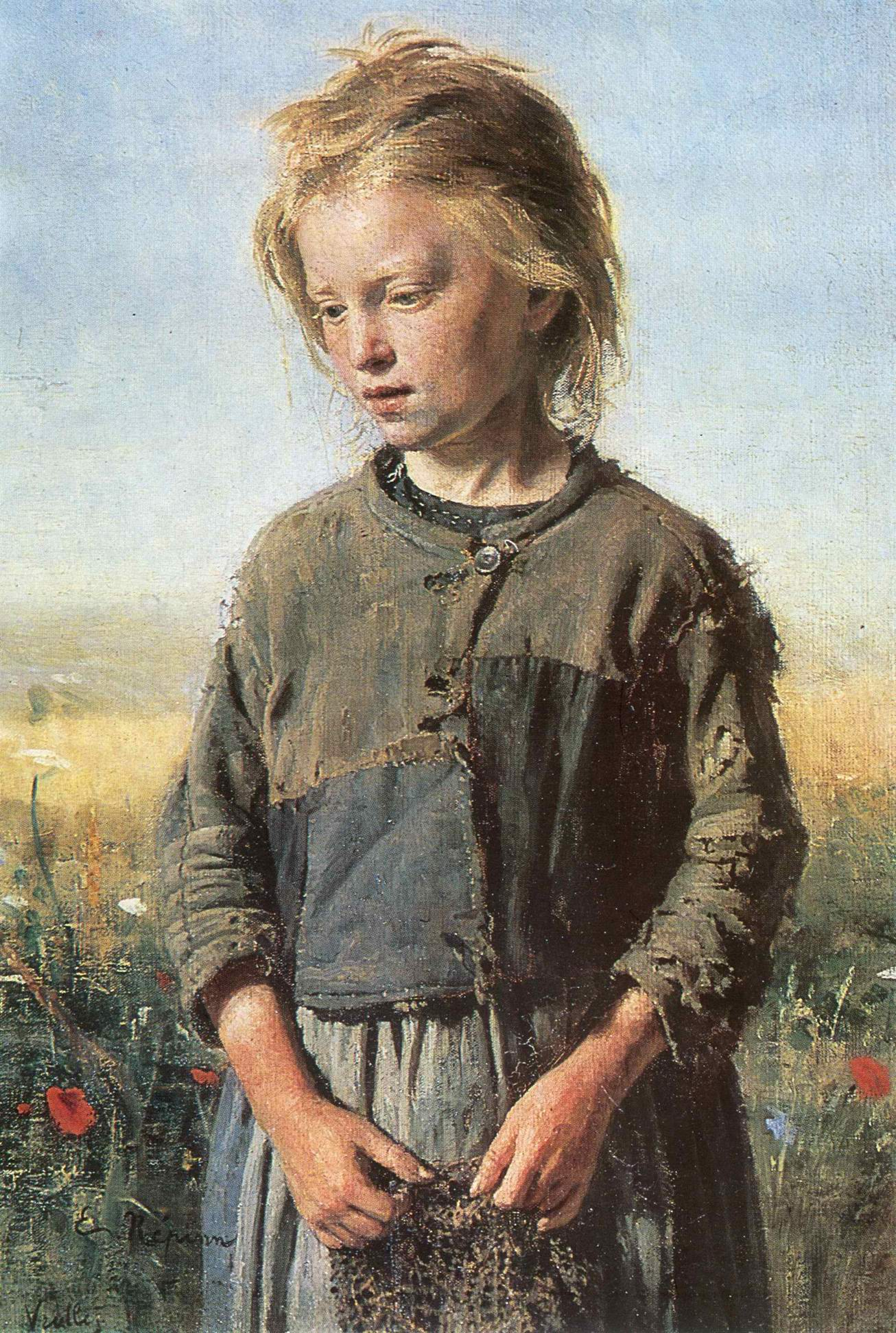 Beggar (Fisher Girl)